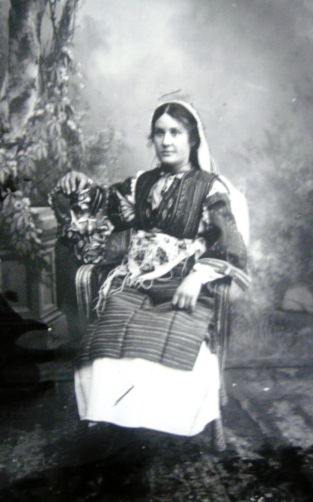 Woman from Bitola, dressed in traditional costume from Smilevo, photographed in the studio of the brothers Manaki in Bitola, between 1898-1912 This media file is produced by Wikipedian in Residence in Category:Wikipedian in Residence at DARM in 2016.